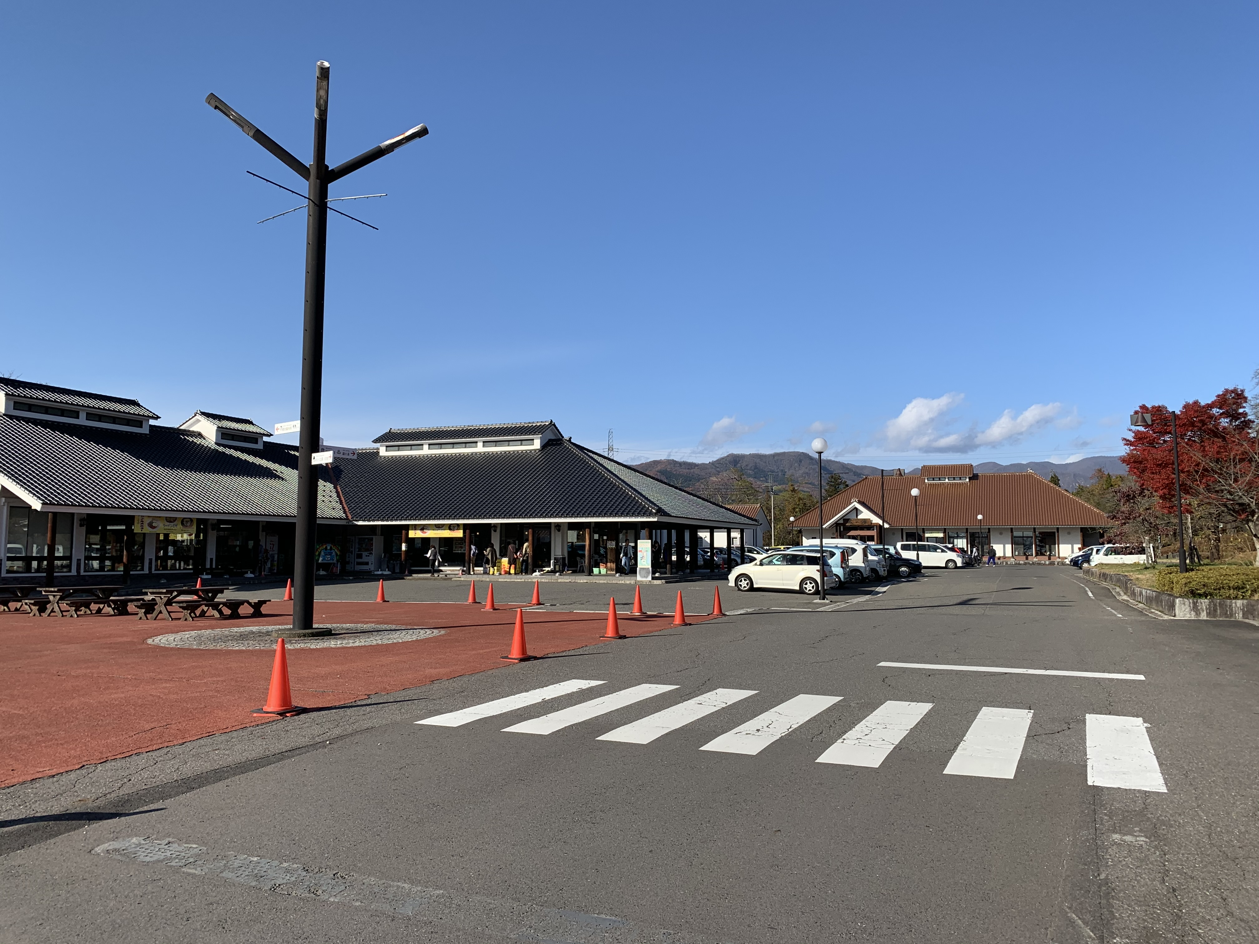 Kita no sato, Michi no Eki (Roadside Station), Fukushima, Japan. Took photo in November 2019.